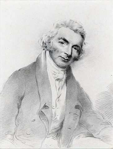 Portrait of William Smyth (1765–1849), English historian by Joseph Slater